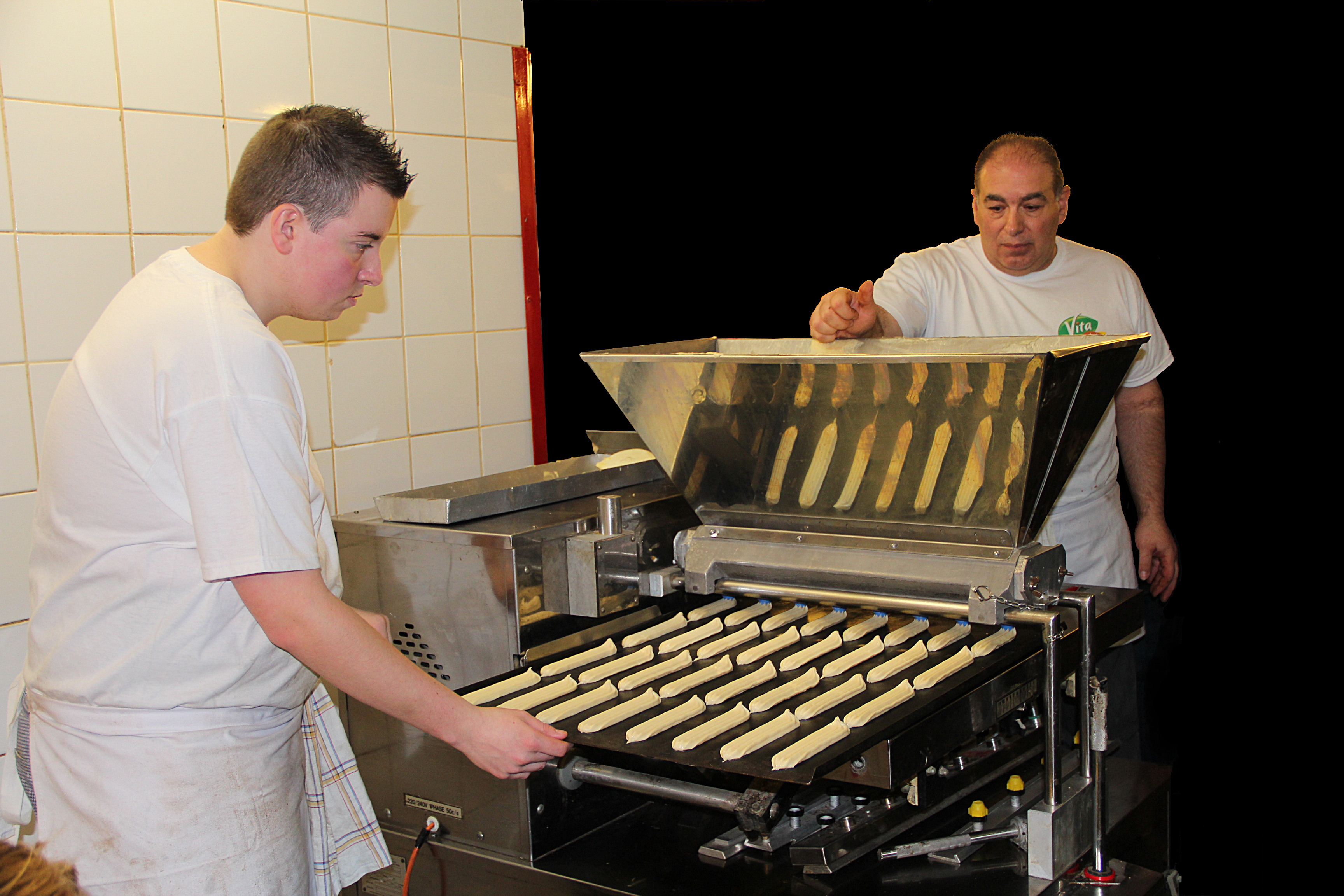 The attendants at the machine for making the éclairs - Workshop of the viennoiseries in the Godefroid bakery at Frameries.